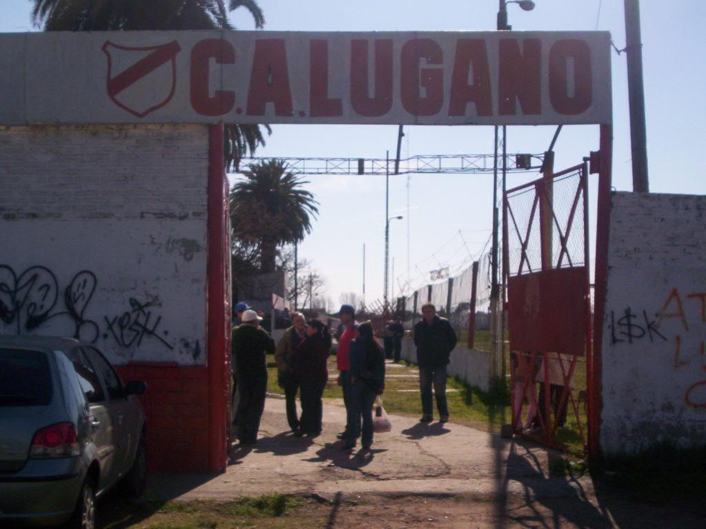 Main entrance of Club Atletico Lugano